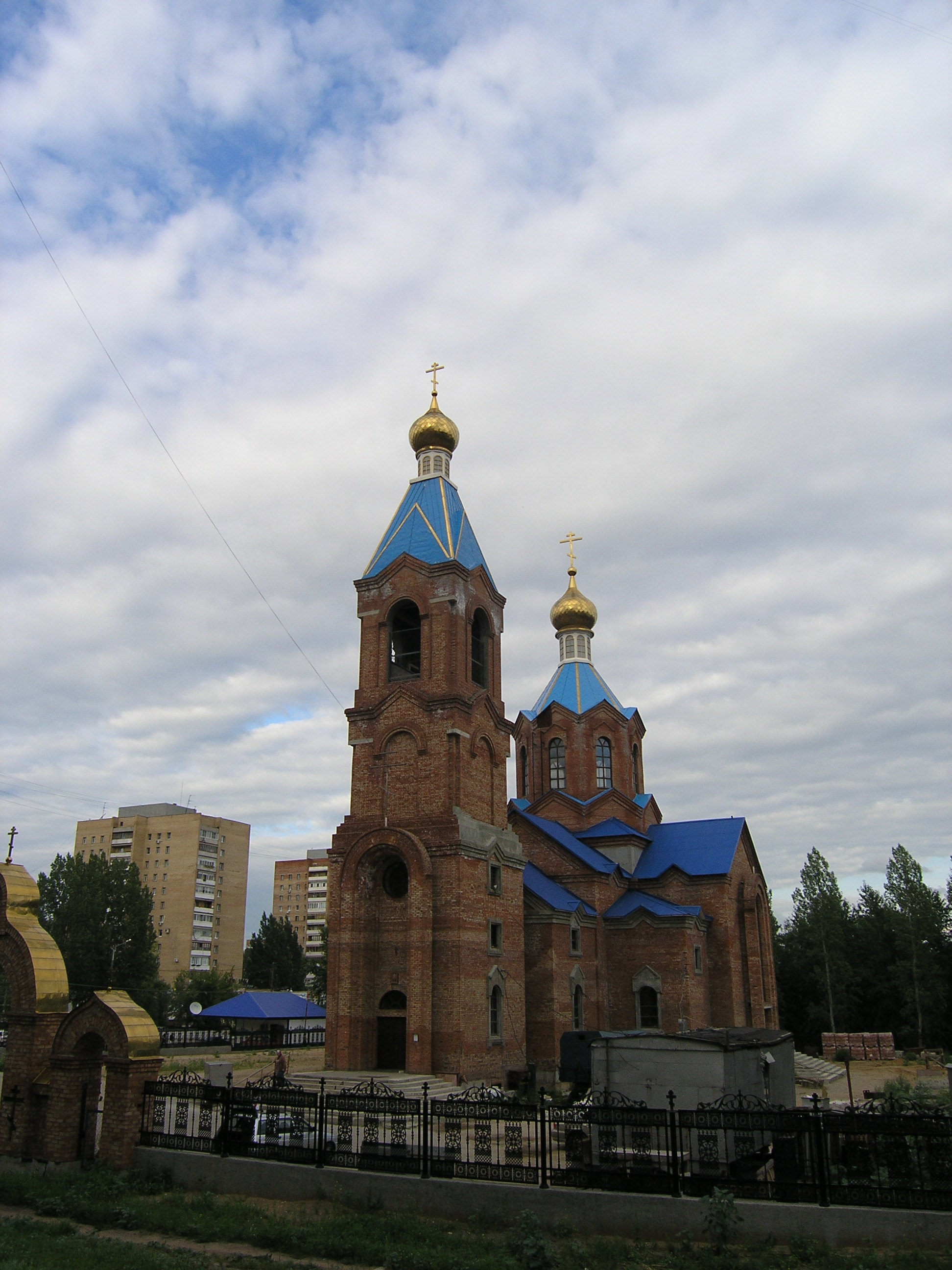 Saint Tikhon's church, Togliatti, Russia